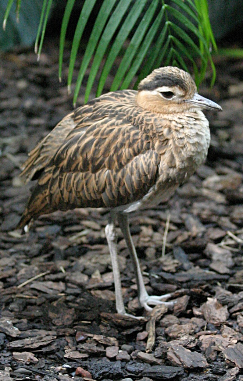 Double-striped Thick-knee at the Milwaukee County Zoological Gardens in Milwaukee, Wisconsin.